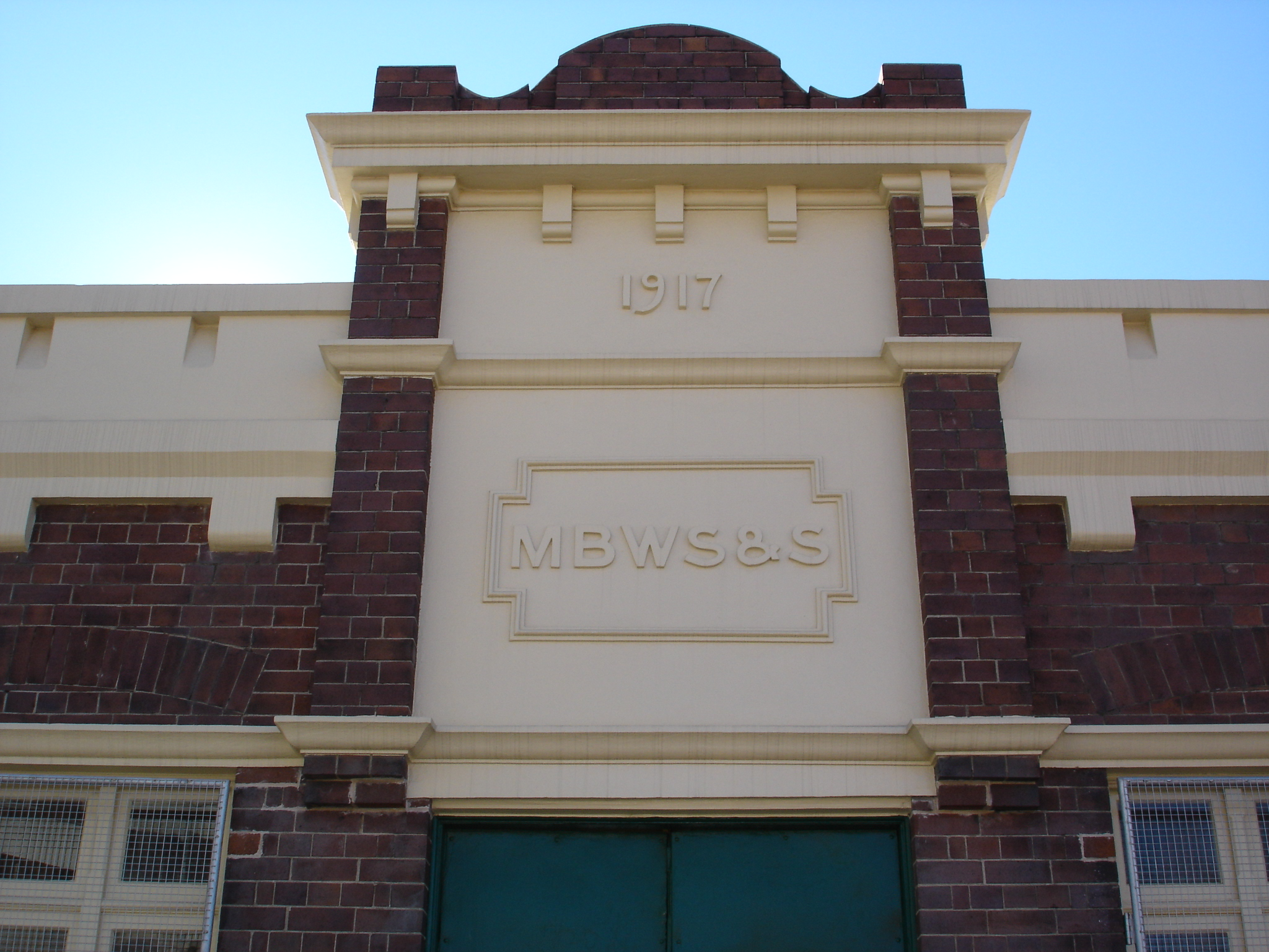 Balmain Reservoir Valve House, New South Wales